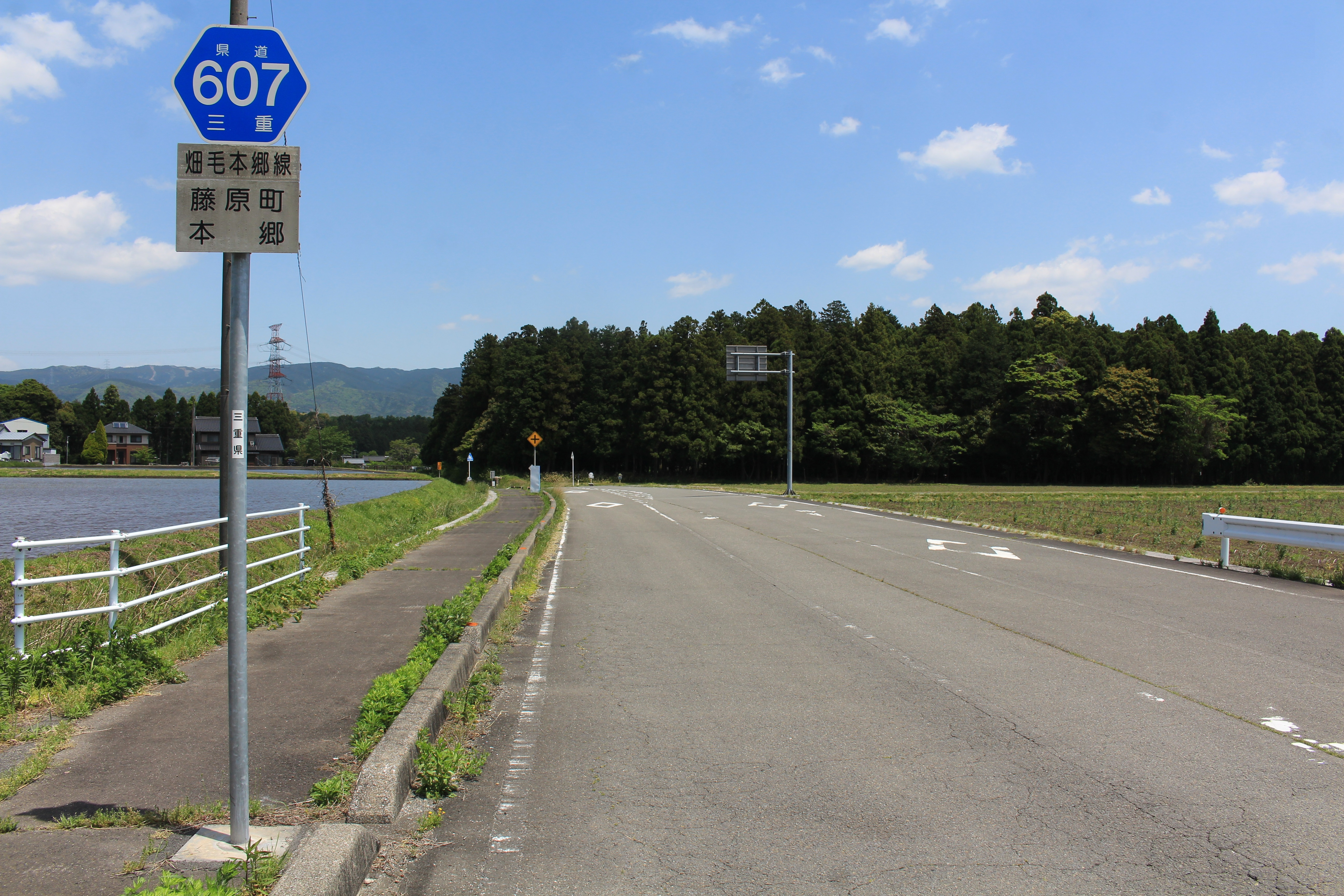 Mie Prefectural Road Route 607 in Hongo, Fujiwara-cho, Inabe, Mie prefecture, Japan.